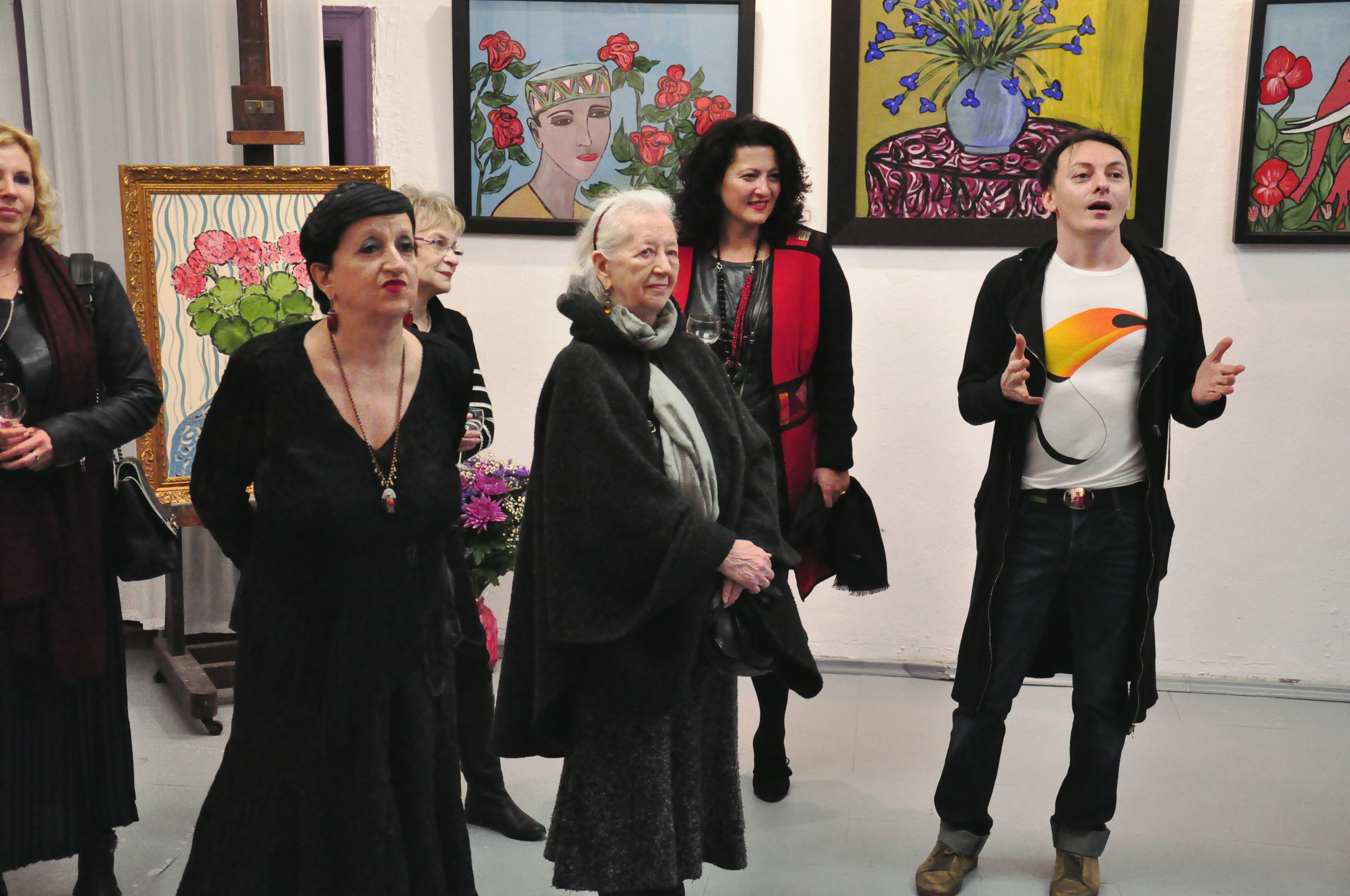 Tatyana Metaksa at the opening day of artist Nikolai Kostromitin, Moscow, April 2013